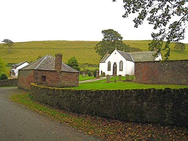 Kirkurd: Kirkurd Parish Church Now used as a store, Kirkurd Parish Church was built in 1766. The stone building at the gate to the kirkyard is a watchhouse. Built in 1828 it provided shelter for the men watching over the newly buried dead so as to prevent them being stolen and sold to the Anatomy Schools in Edinburgh.